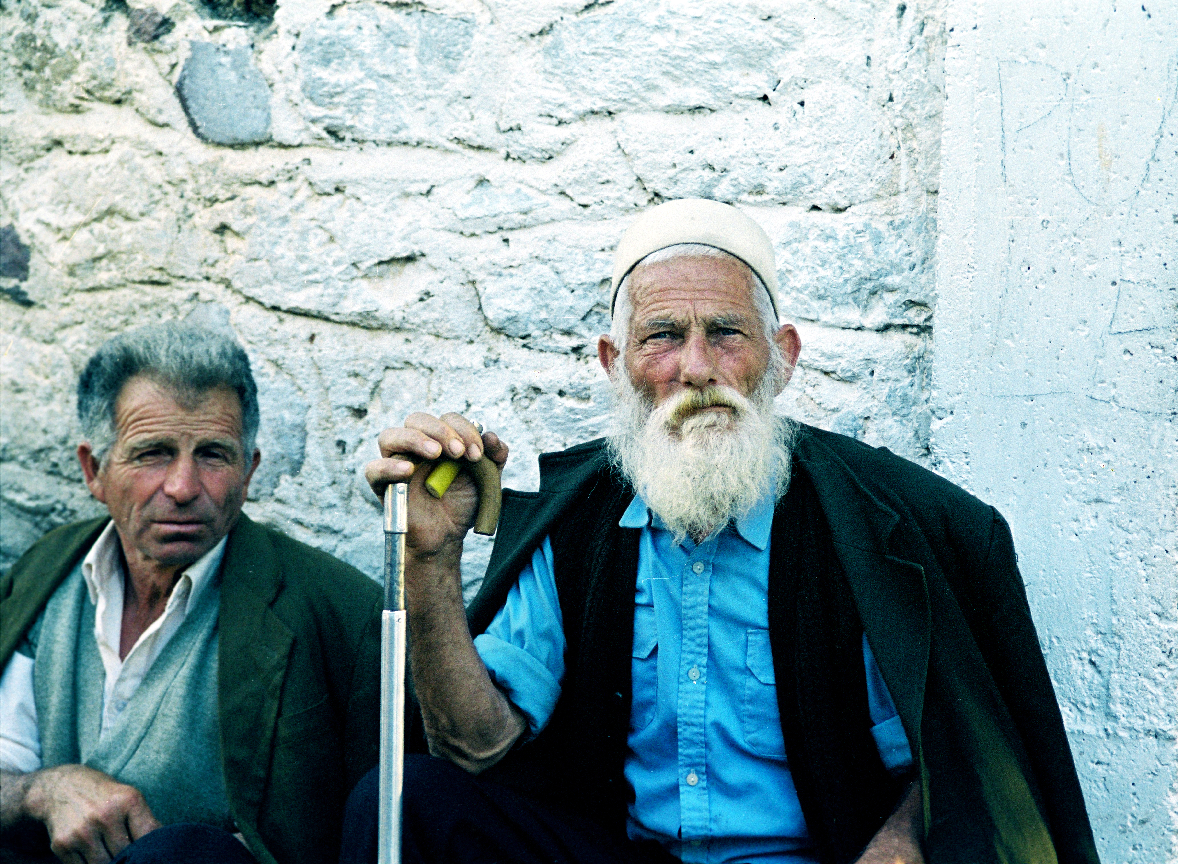 Old men in a village east of Kukës in Albania. Summer 2002